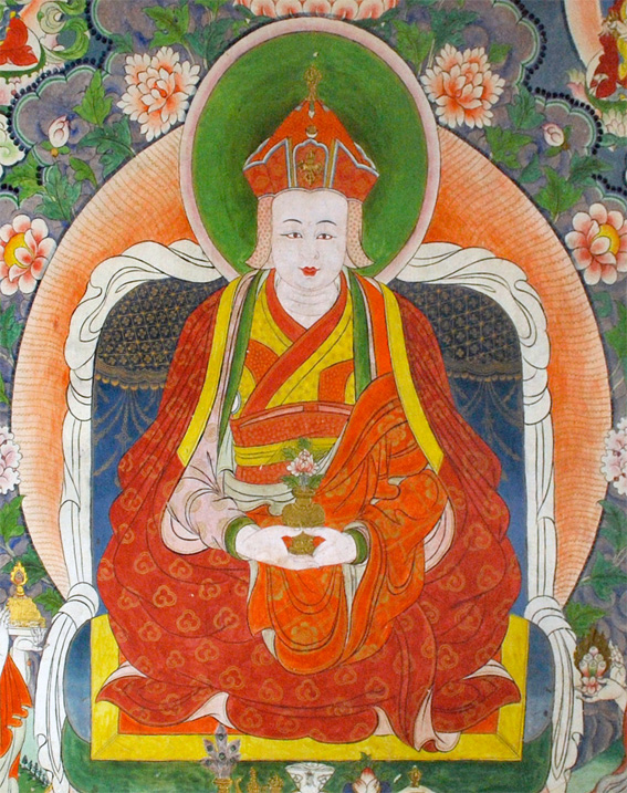 Pema Lingpa, b.1450 - d.1521, Terton of Tibetan Buddhism